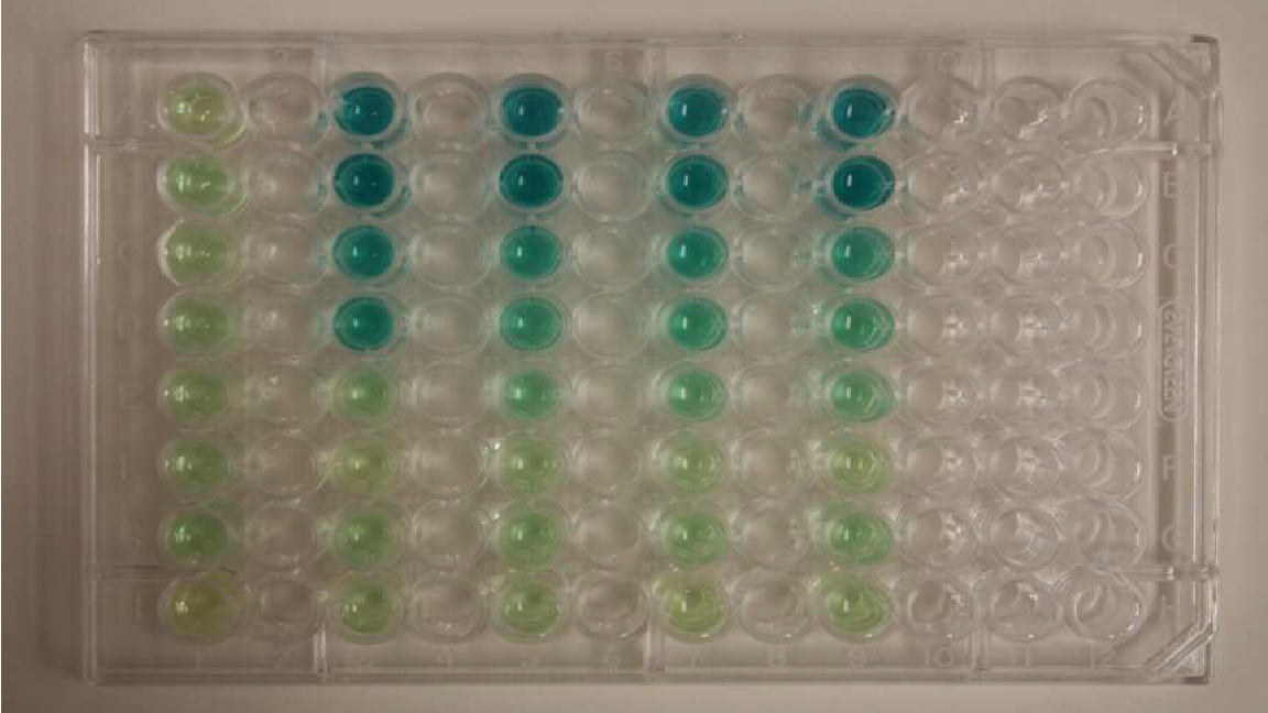 sos results